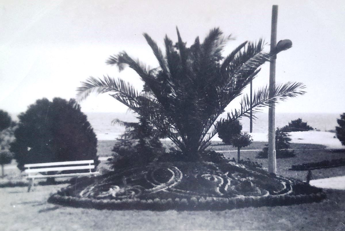 Varna. Photos of the Sea Garden.